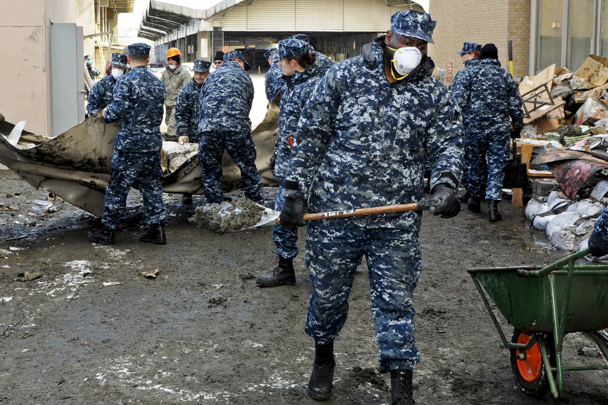 U.S. Navy Petty Officer 2nd Class Robert Bannister removes mud sediment from behind a damaged building in Hachinohe, Japan, March 17, 2011. Sailors from Naval Air Facility Misawa and its tenant commands are assisting with cleaning up the tsunami-damaged city. Bannister is a logistics specialist assigned to Fleet and Industrial Supply Center Misawa.